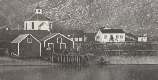 Kjelvik Church was an octogonal building erected 1844, damaged by wind in 1882.